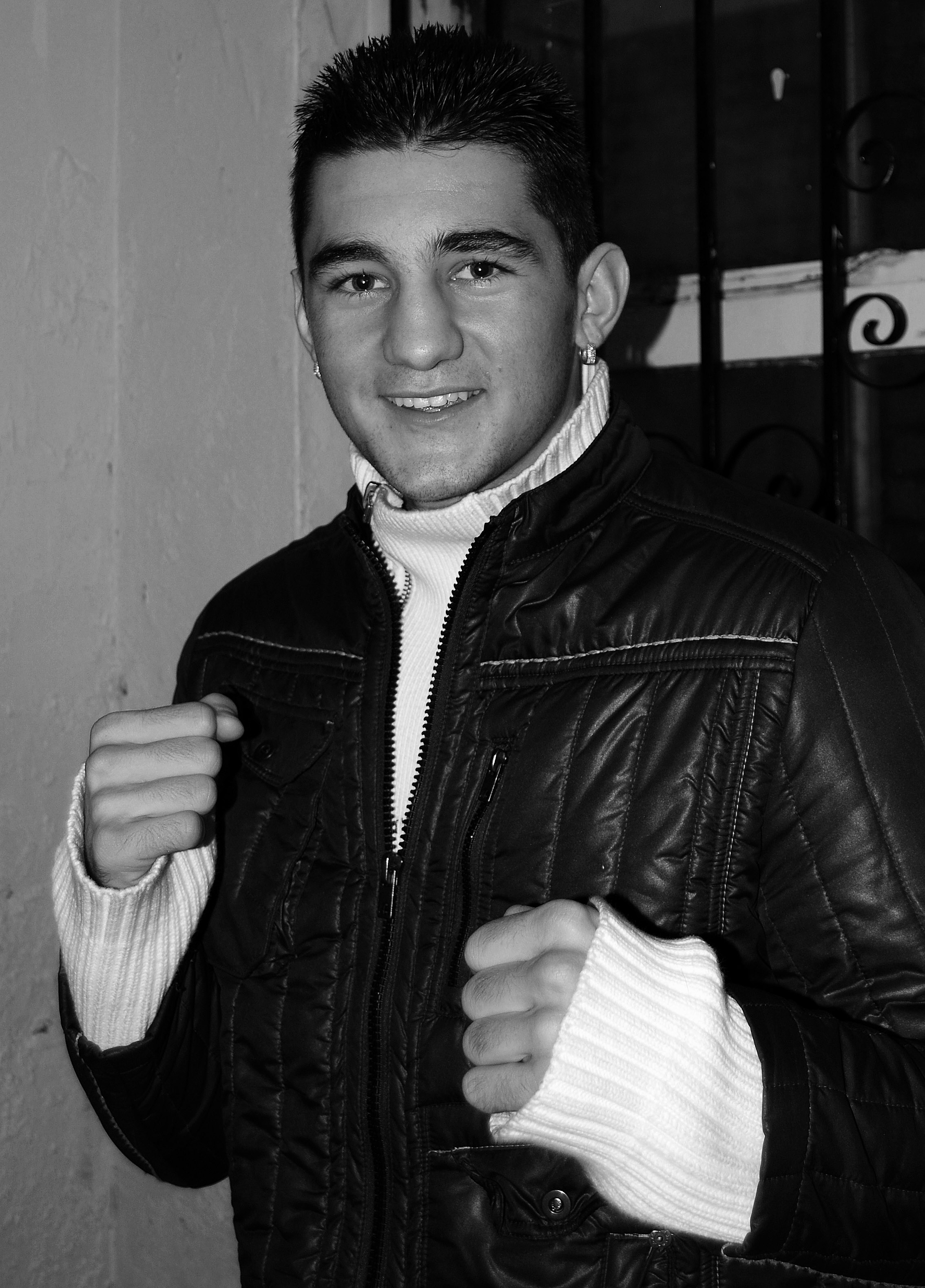 A photograph of Commonwealth light heavyweight boxing champion Nathan Cleverly